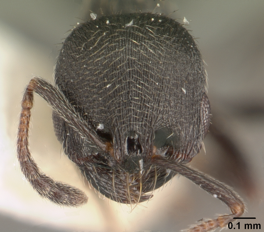 Head view of ant Oxyopomyrmex oculatus specimen casent0101775.